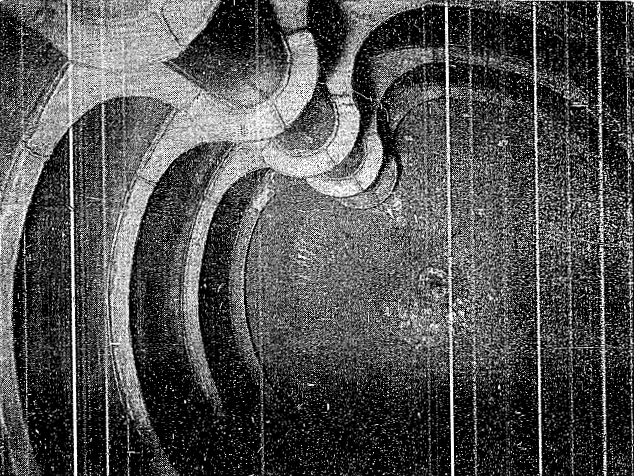 View through access hatch of a Kaiten type 2's peroxide tank. Just about visible is the asphalt coating, so this is in the early stages of the complex preparation process.